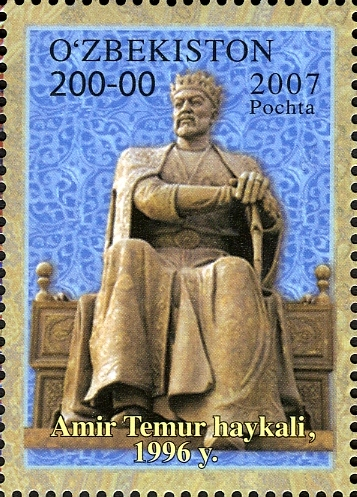 Stamps of Uzbekistan, 2007